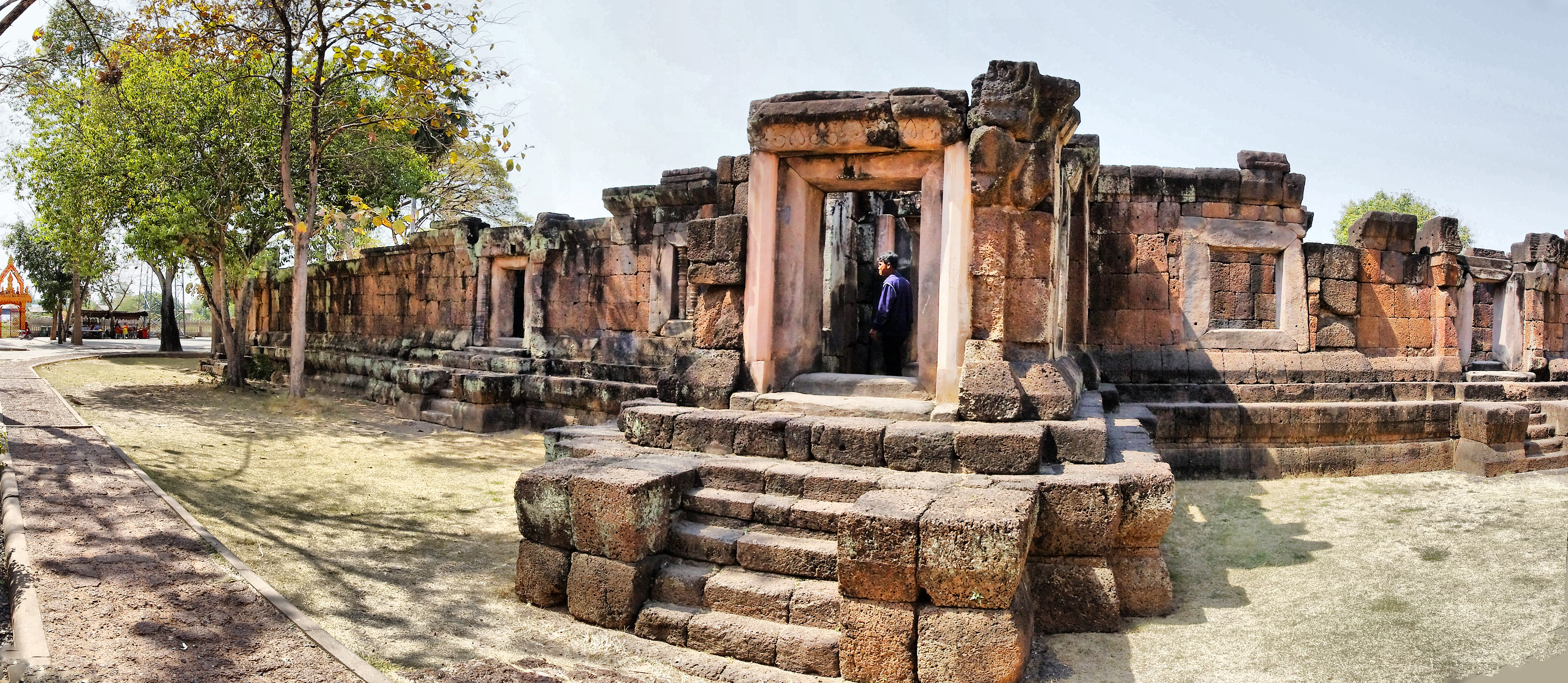 Prasat Sa Kamphaeng Yai, Thailand